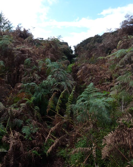 Tappoch Broch, Torwood, Stirlingshire, Scotland